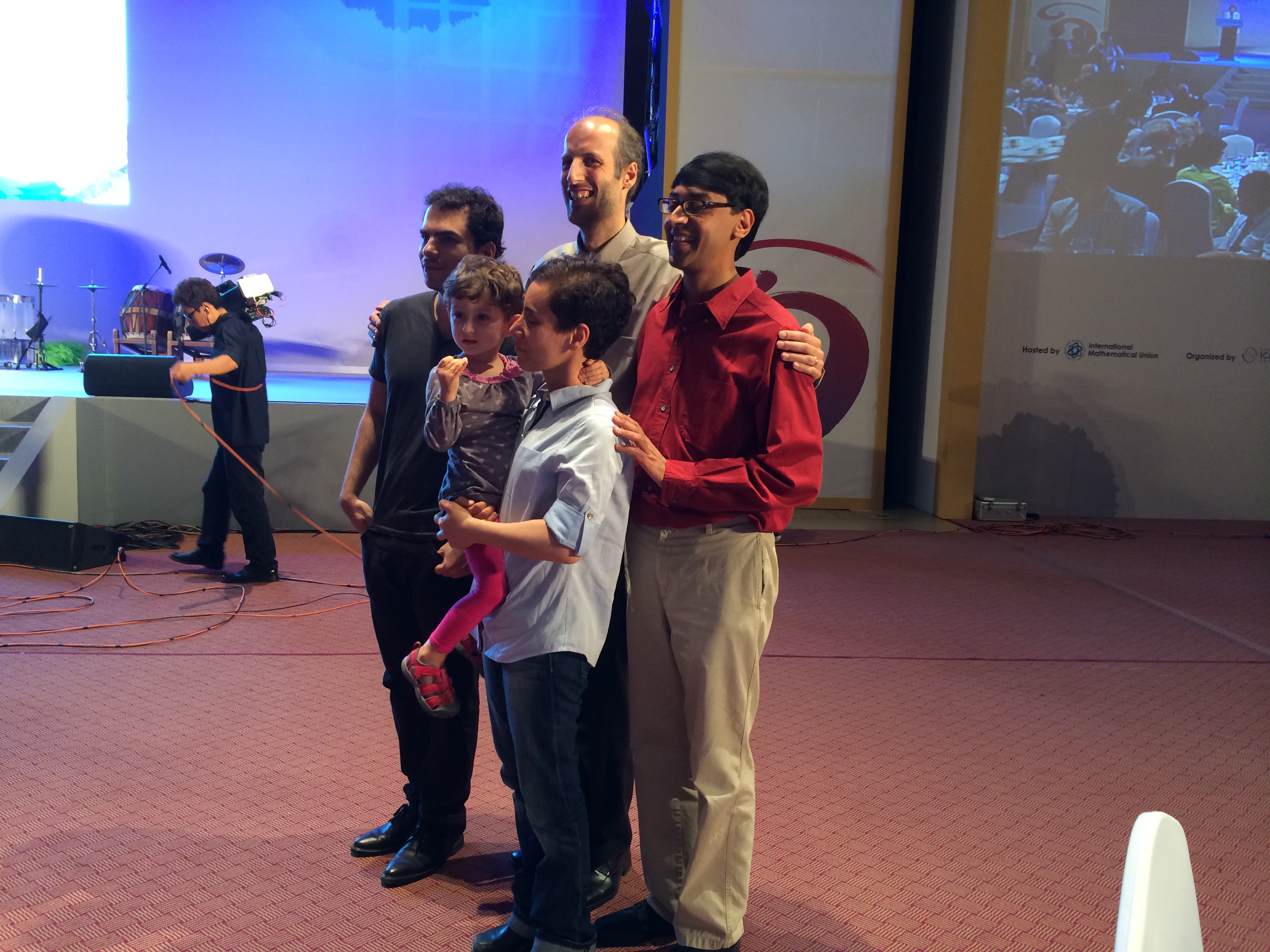 Four Fields medallists left to right (Artur Avila, Martin Hairer (at back), Maryam Mirzakhani, with Maryam's daughter Anahita) and Manjul Bhargava at the ICM 2014 in Seoul, South Korea. Taken on 16 August 2014 at the Seoul COEX Convention and Exhibition Centre.